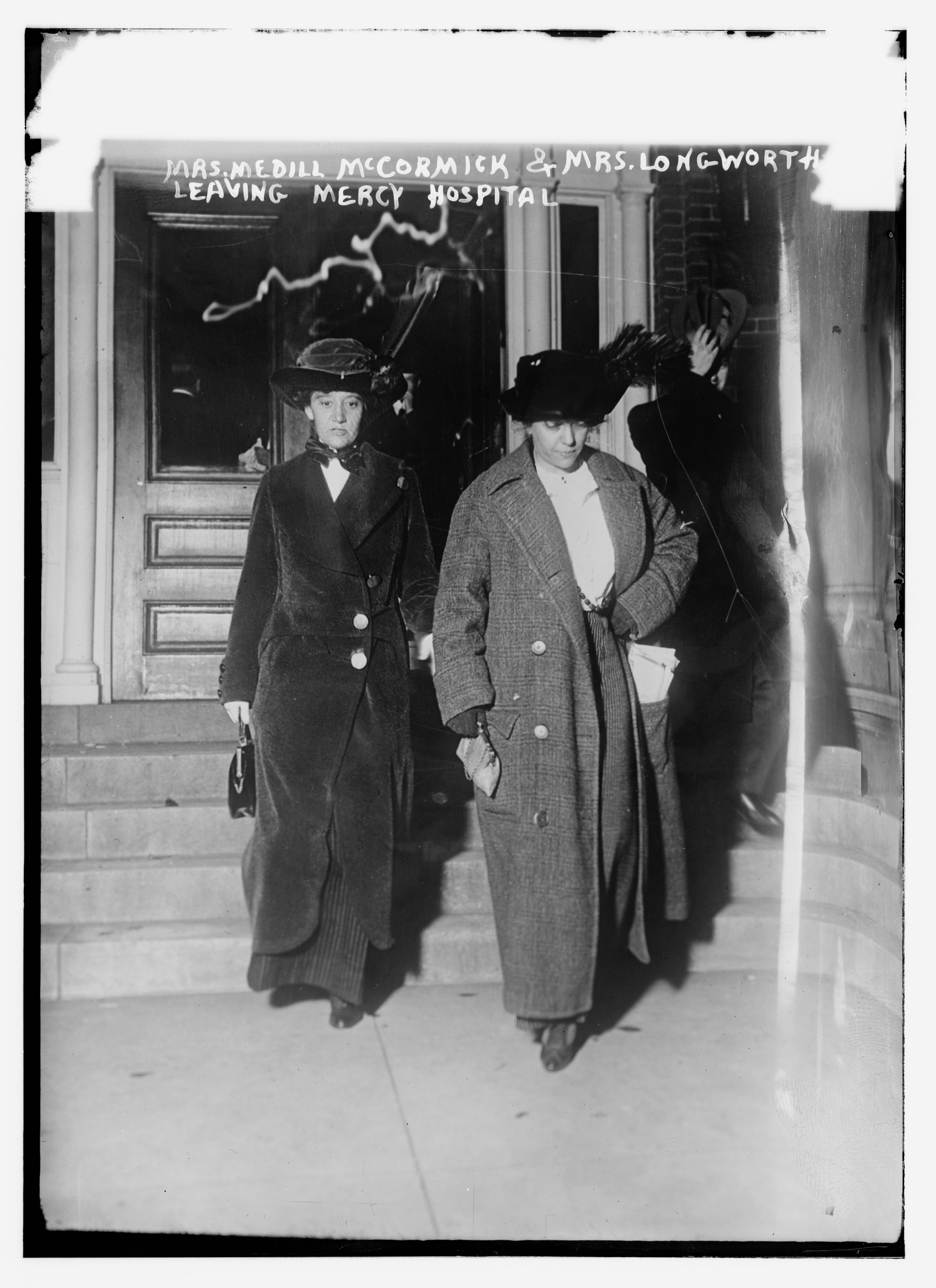 Title: Mrs. Medill McCormick and Mrs. [Alice Roosevelt] Longworth leaving Mercy Hospital Abstract/medium: 1 negative : glass ; 5 x 7 in. or smaller.